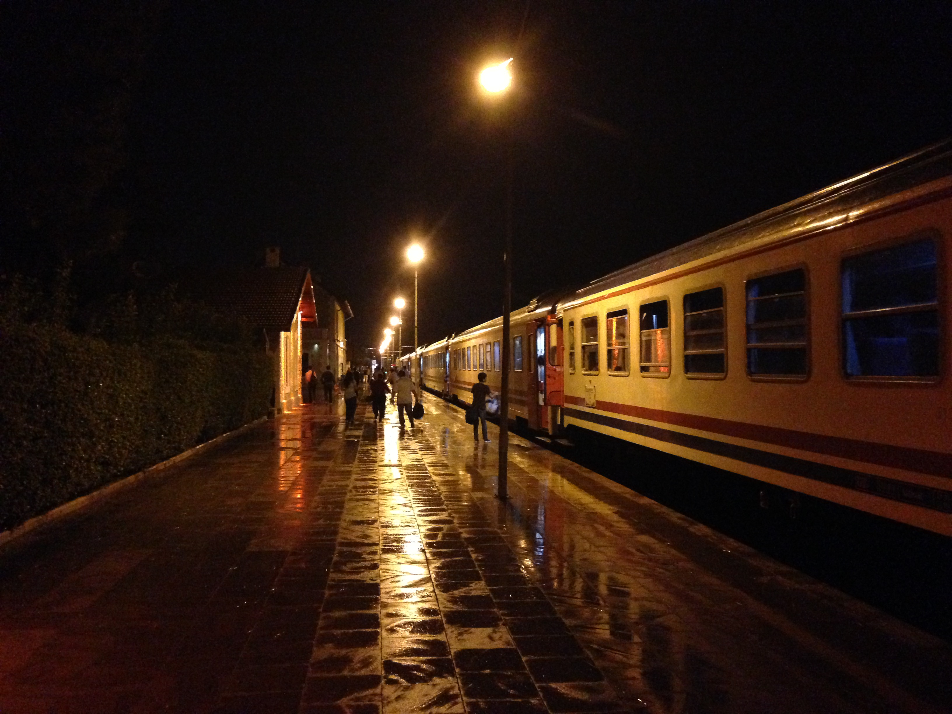 Passengers disembark from a regional train from Izmir.